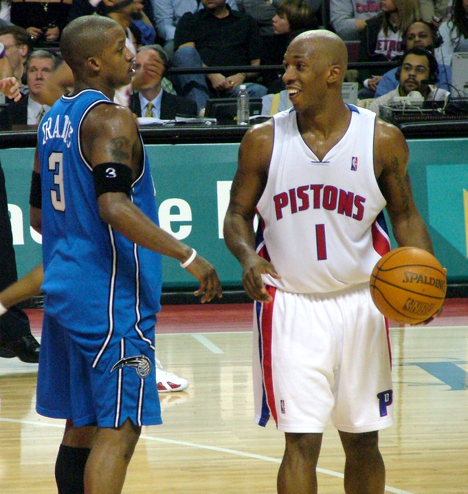 Chauncey Billups talking with Steve Francis, 03.01.2006